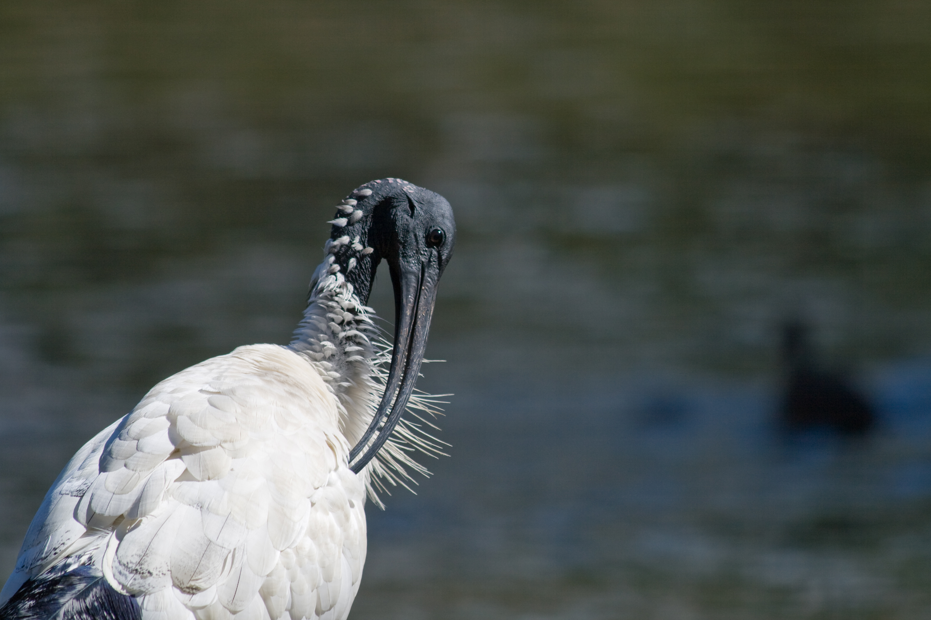 Close up of an Australian White Ibis (Threskiornis molucca)